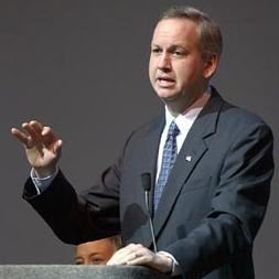 Depicted person: Bart Peterson – American mayor